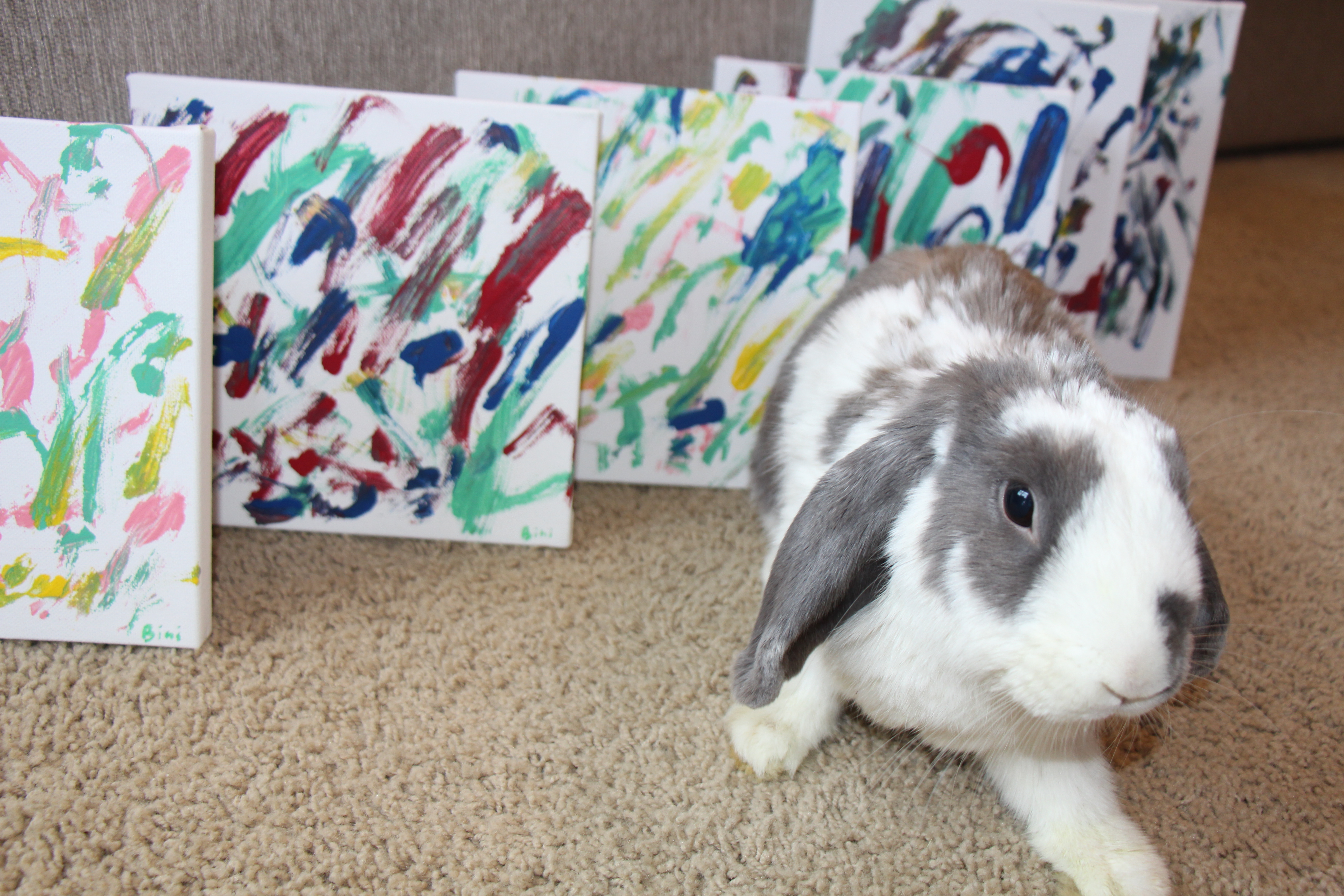 Bini stands proud in-front of his beautiful art work. Bini is the only bunny in the world who can paint. His videos can be found on social media